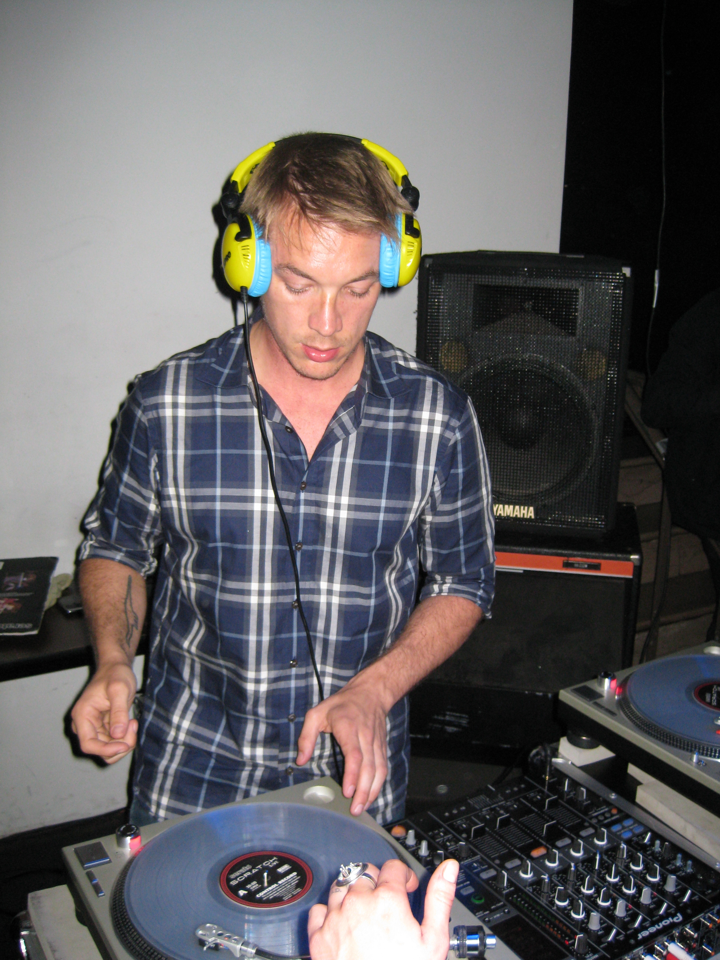 Diplo performing at Soundlab in Buffalo, New York on 7 May, 2009.